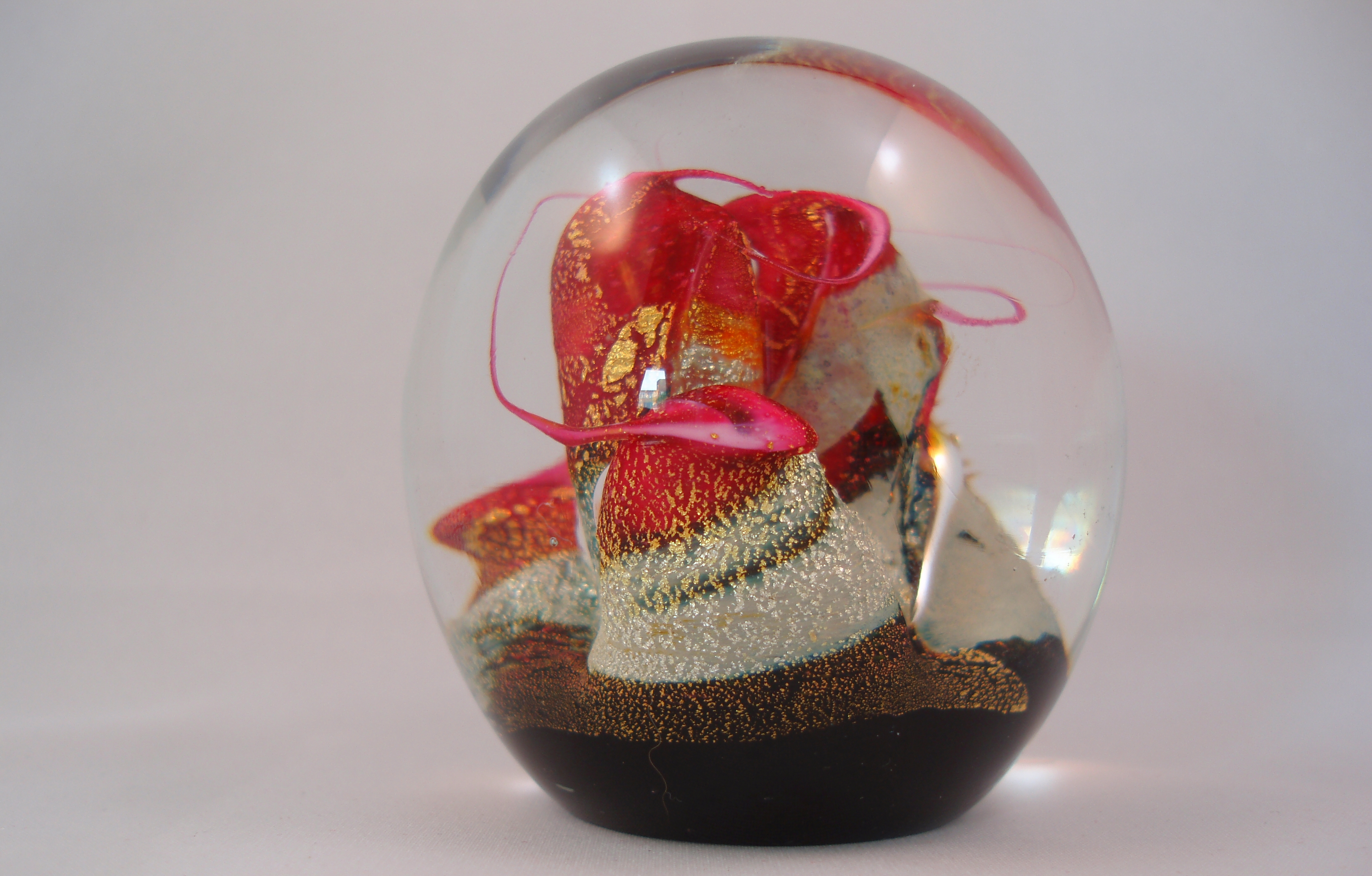 Paperweight, glass art from Gozo, Malt